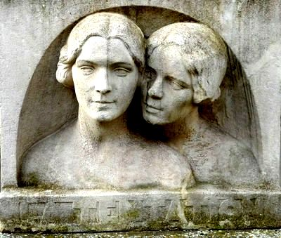 Temptation - A statue by the Belgian artist Yvonne Serruys (1873-1953).She was a pupil of Emile Claus (1849-1924) - Menen (Belgium) - Photo Paul Gosselin.